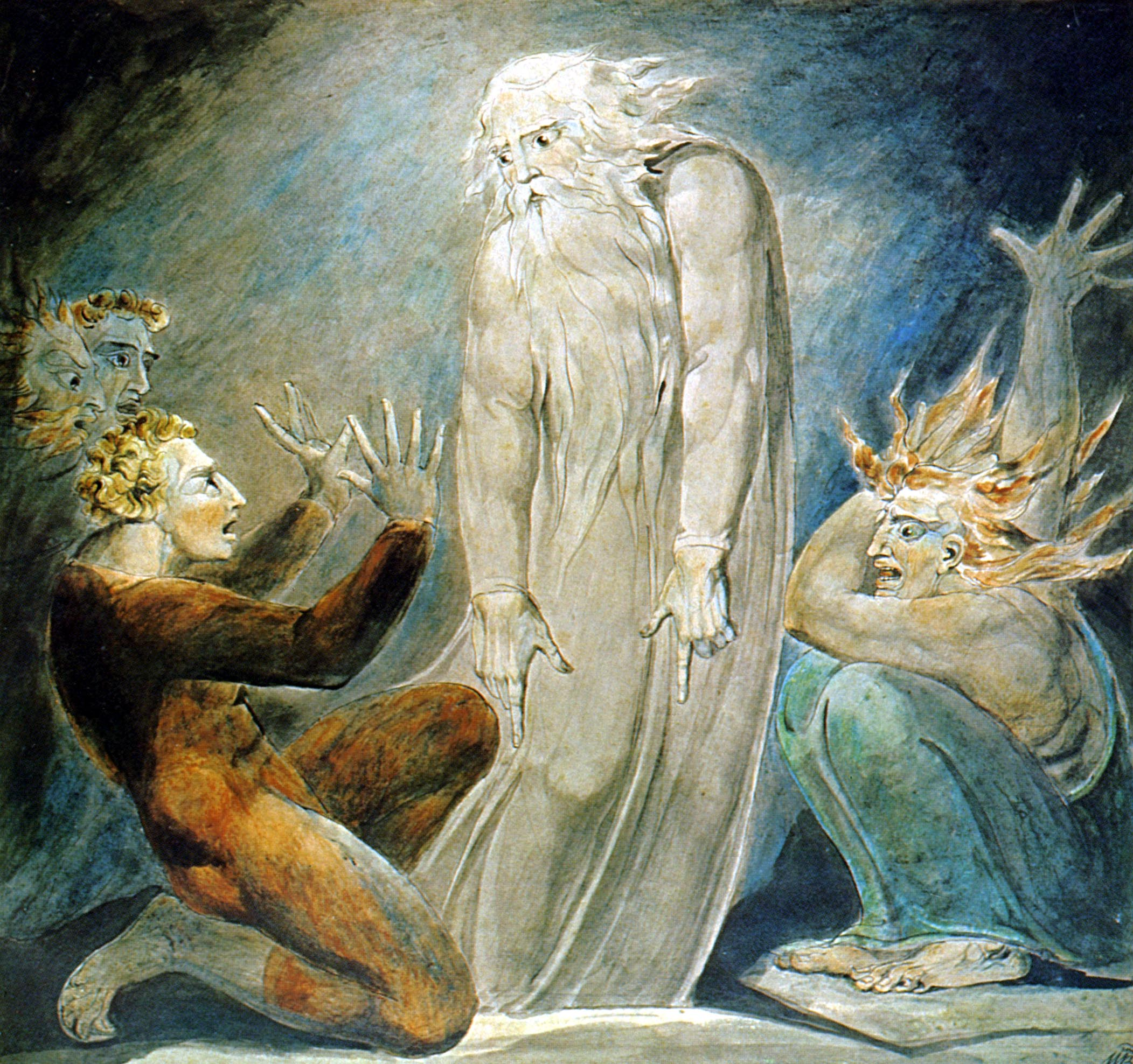 The Ghost of Samuel Appearing to Saul. Pen and watercolour on paper, 283 x 423 mm